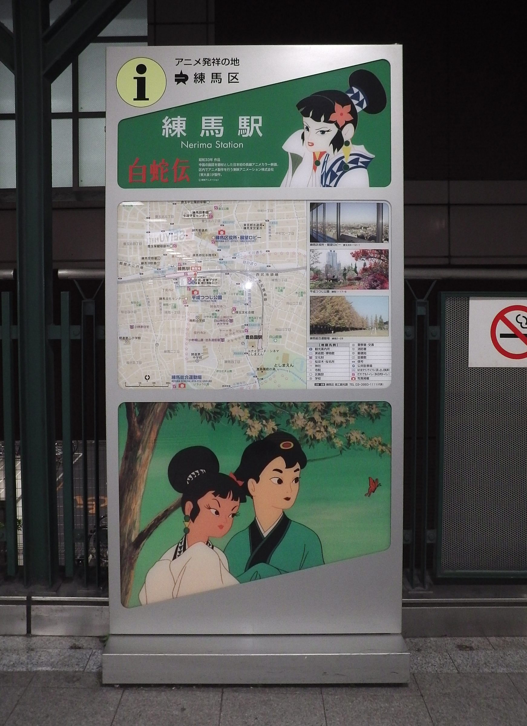 This is the monument of the anime movie "Hakujaden"(The Tale of the White Serpent,1958) at Nerima Station, Tokyo. They wrote "Nerima City, the birthplace of ANIME" on this monument.